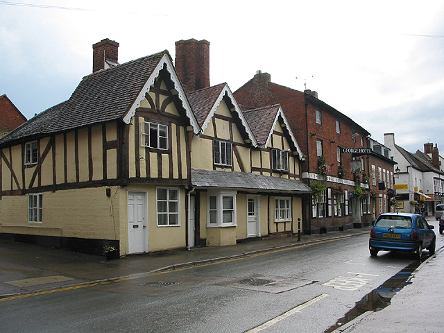 Church Street, Newent Showing one of the many half-timbered buildings and the George Hotel, an old coaching house and posting inn dating back to the mid seventeenth century. Recent alterations have unearthed a treasure trove of golden spade guineas beneath the hearth.